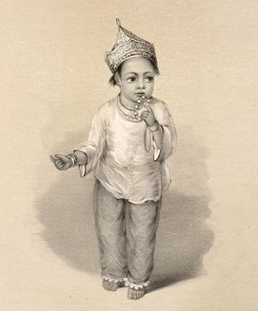 A little Mussulman girl, 1844 lithograph of a little Muslim girl in India wearing paijamas and kurti; the girl was the child of one of the servants of the Governor-General of India, George Eden. Uploaded by Fowler&fowler«Talk» 00:09, 24 November 2008 (UTC)